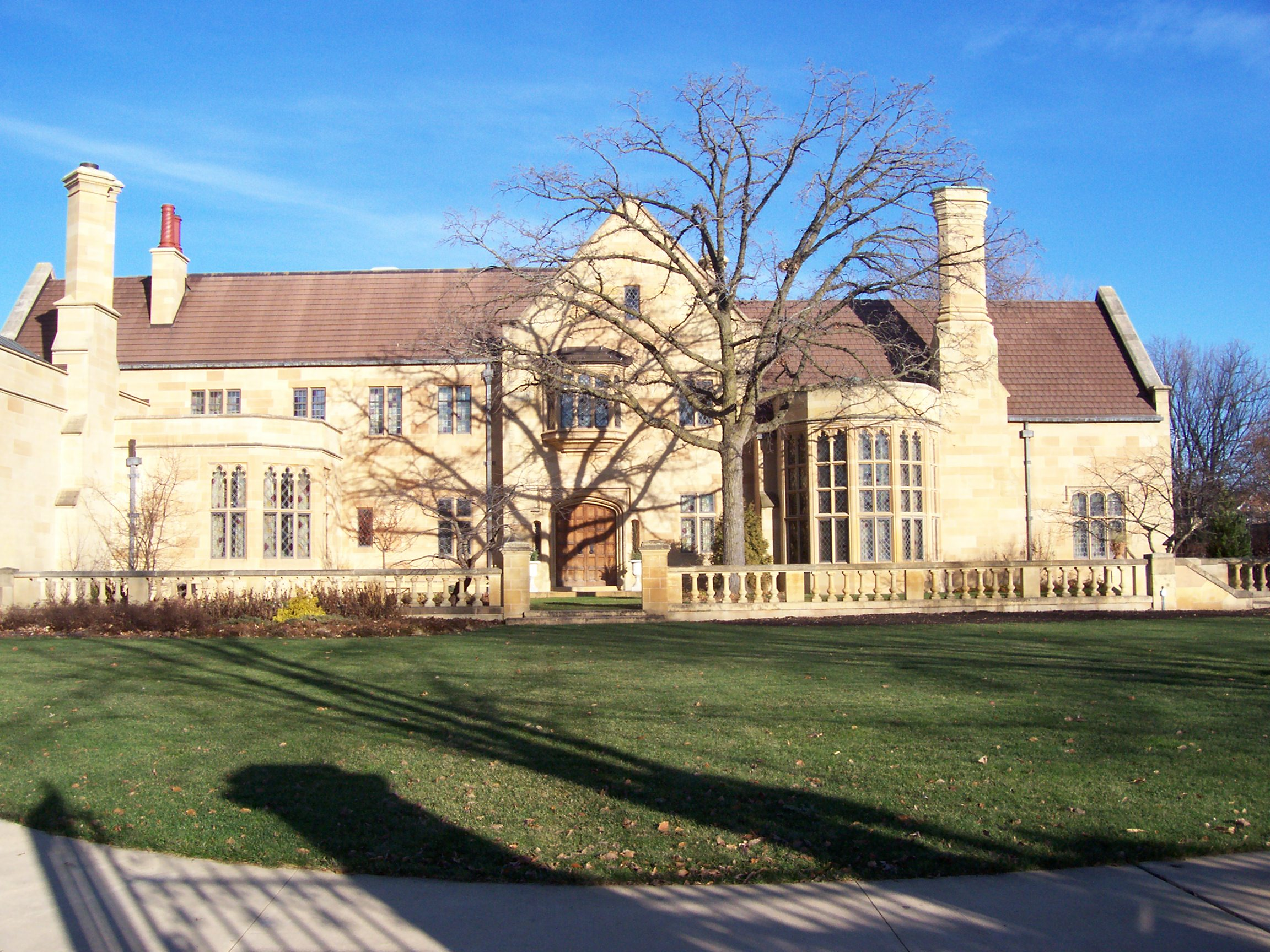 The Paine Art Center and Gardens in Oshkosh, Wisconsin. The estate of Nathan Paine Estate includes a historic house museum, art galleries, designed gardens, and a botanic garden. It is listed on the National Register of Historic Places.